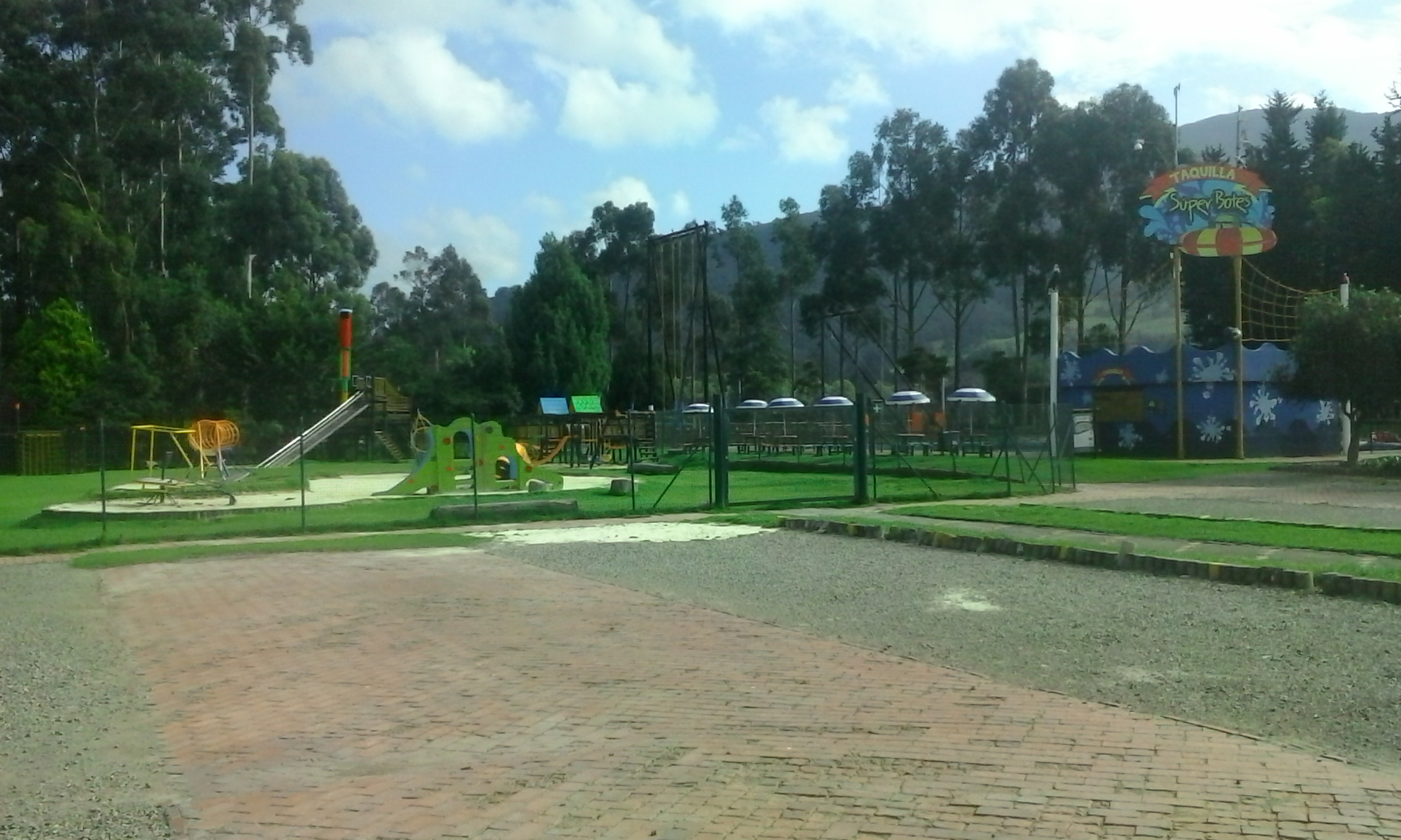 This is an outdoor park located in Bogotá - Colombia